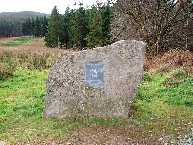 Northern end of the Wye Valley Walk This stone, brought here from Chepstow, marks the northern end of the 136 mile Wye Valley walk. At the Picnic area in the Hafren Forest.